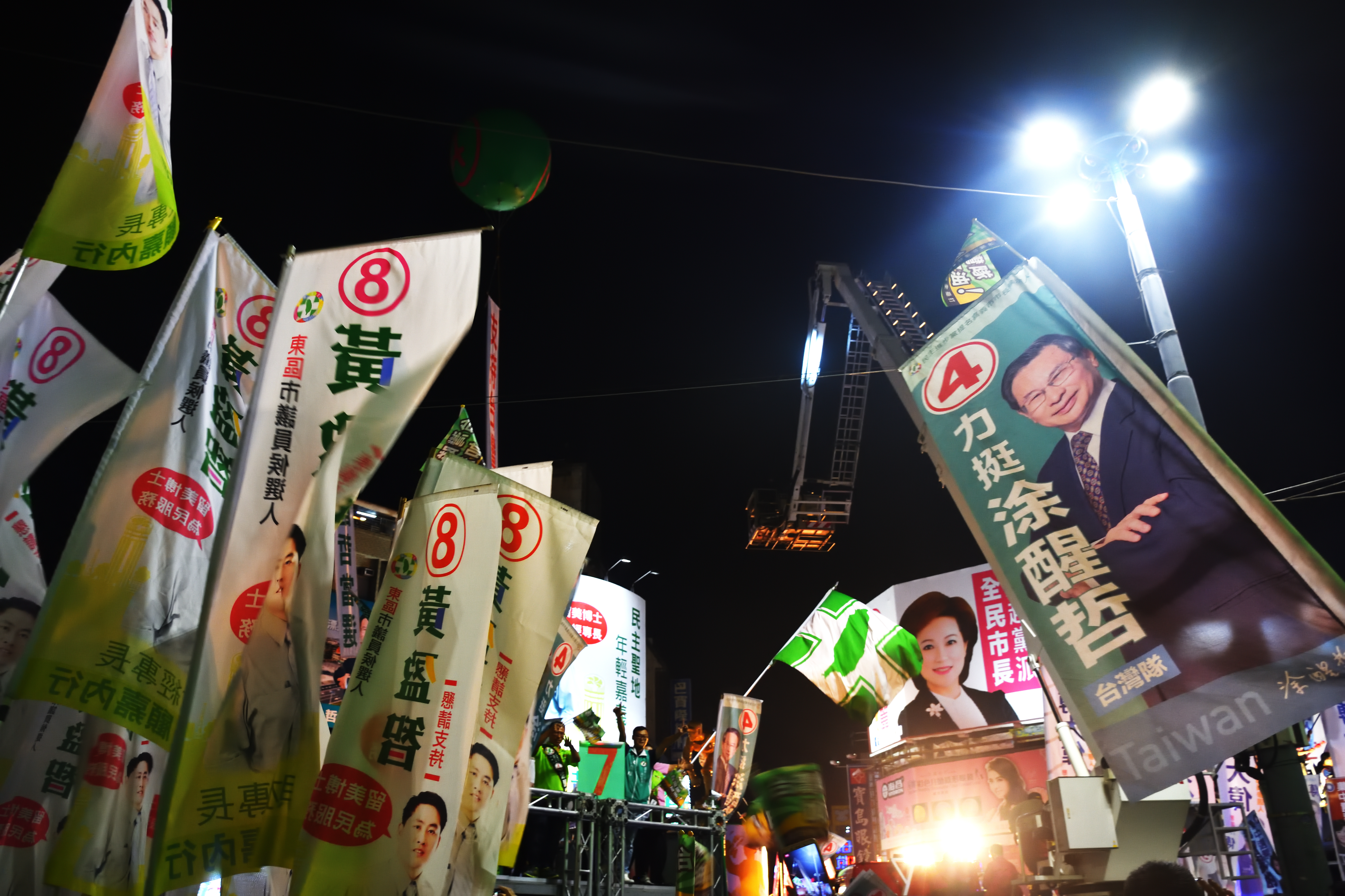 2018/11/23 pre-election night in Chiayi City, Taiwan